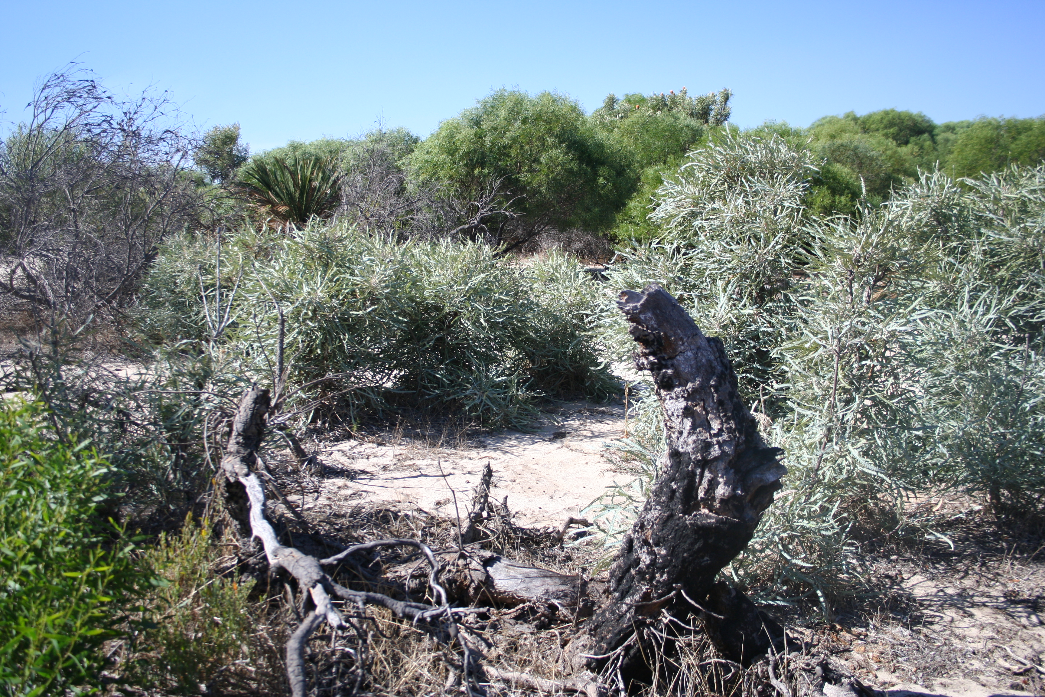 Ancient dead Banksia elegans, old stump with lots of new regrowth from underground - Fraser Rd